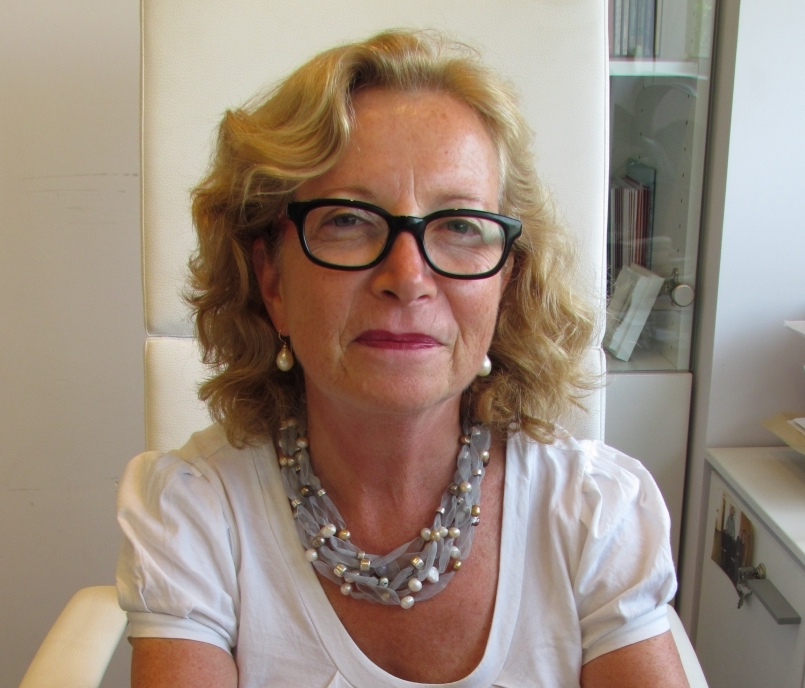 Dr. Gila Flam